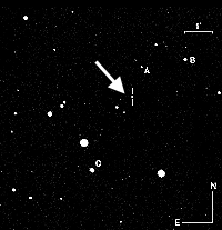 In visible light, 4C 71.07 is less than impressive, just a distant speck of light. It's in radio and in X-rays - and now, gamma rays - that this object really shines.